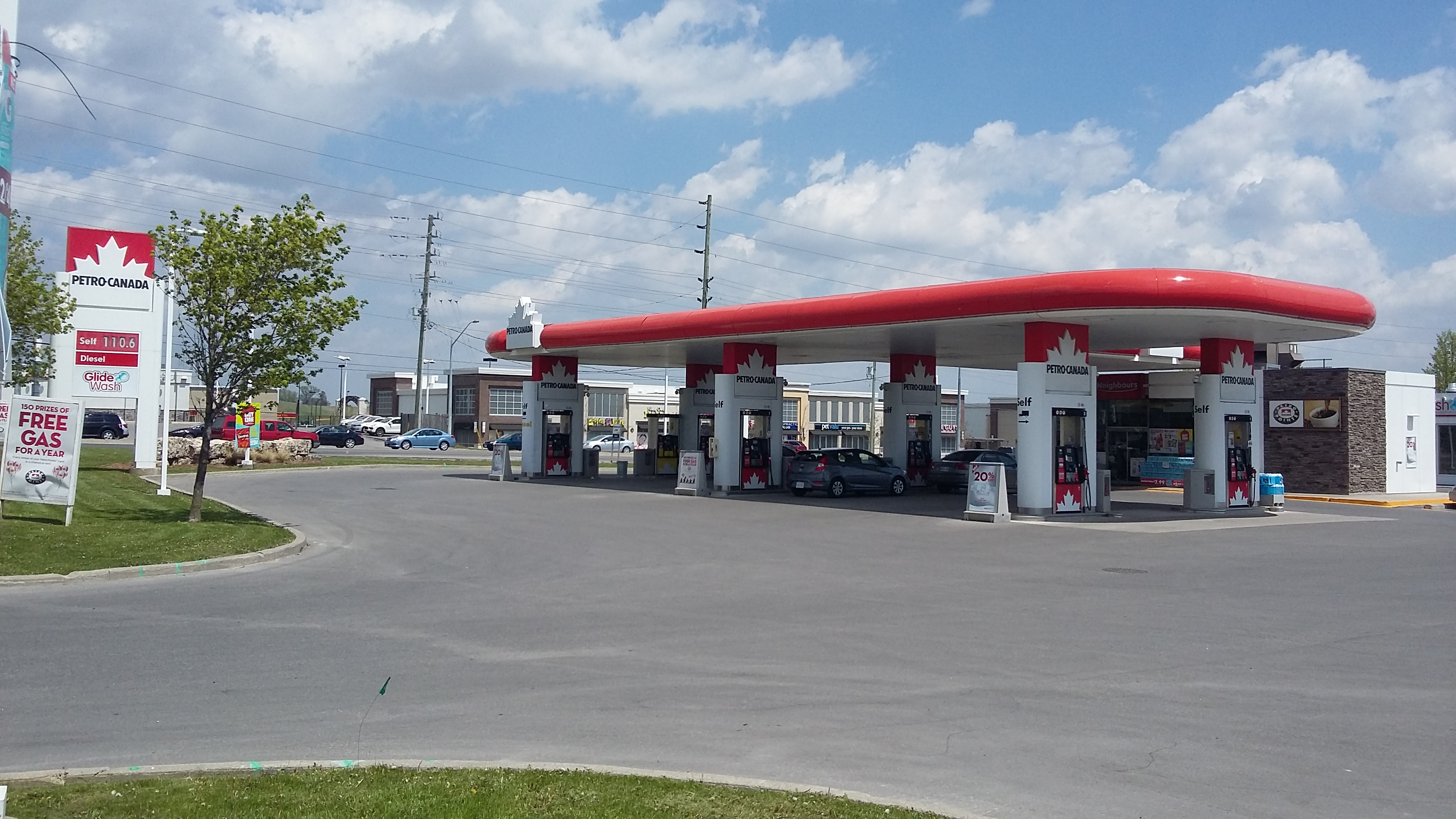 Petrocanada Yonge and Green Lane Newmarket Ontario